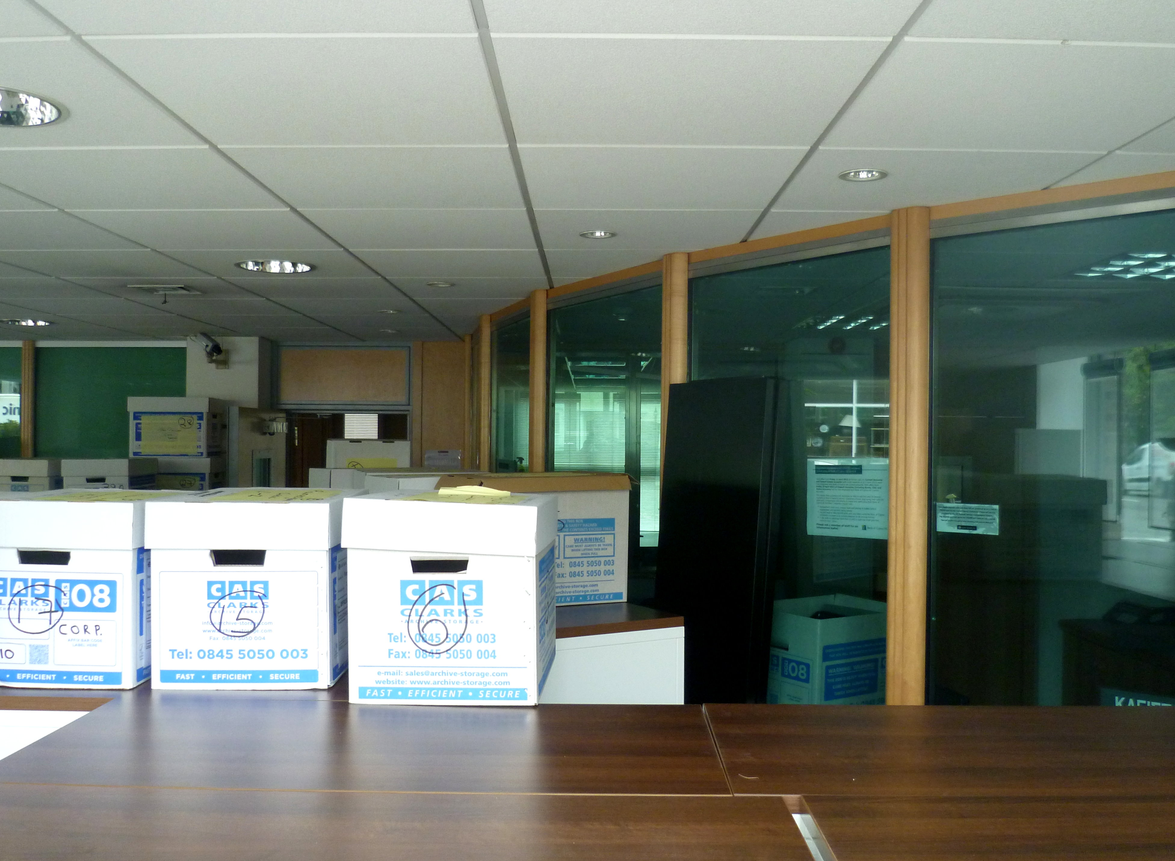 Interior of the Laiki Bank, Finchley, North London after closure.